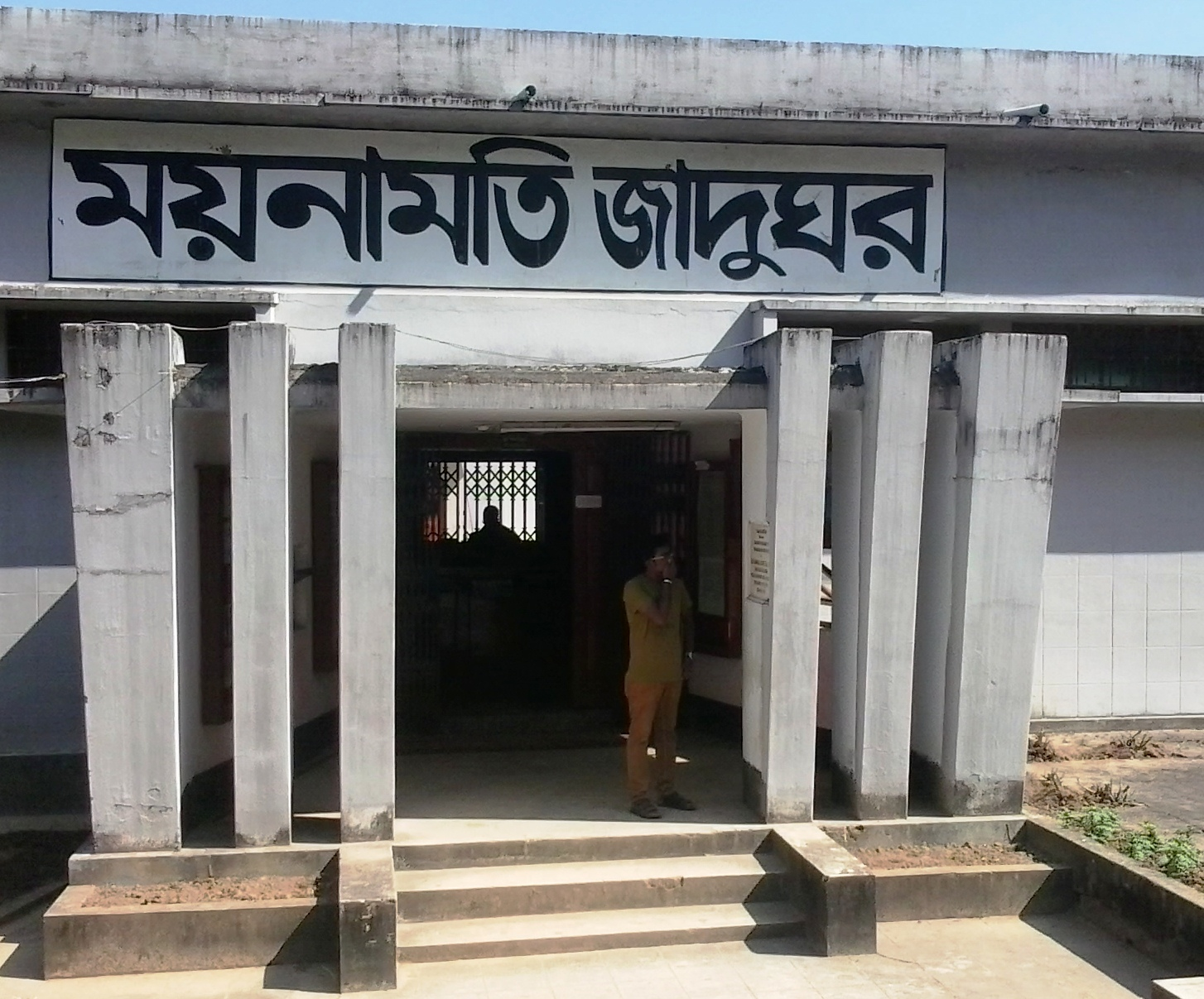 Ruin of maynamati buddhist vihar (1)